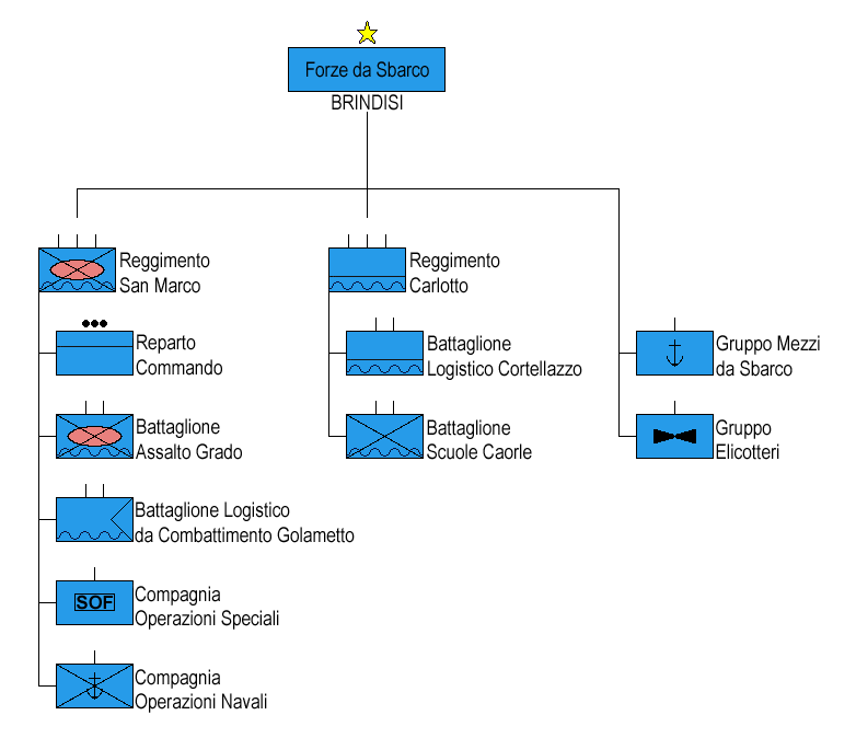 Structure of the Amphibious Forces Command; Italian Navy. (Italian version)